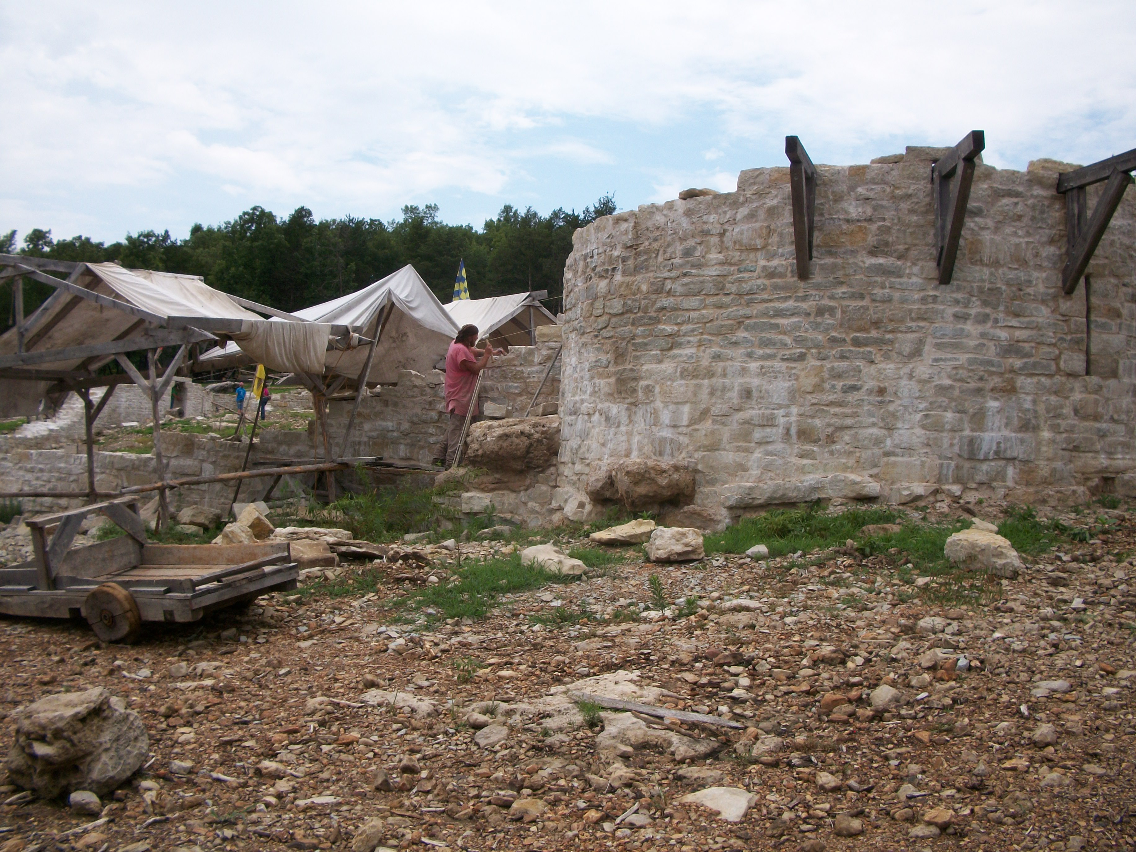 Watch the process of a Medieval Fortress being built without any modern tools. 1671 Hwy 14 W, Lead Hill, AR Ozark Medieval Fortress, Lead Hill, Arkansas